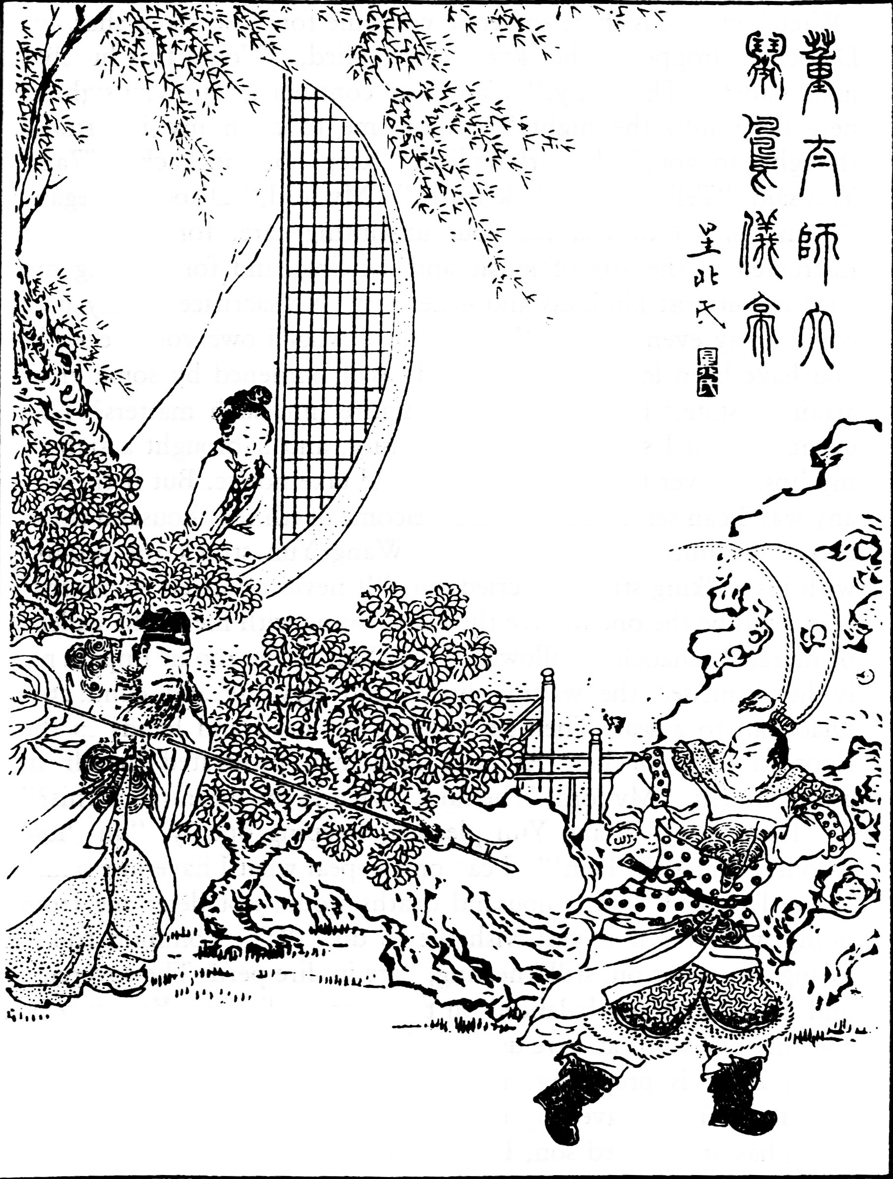 Lü Bu being chased off by Dong Zhuo.